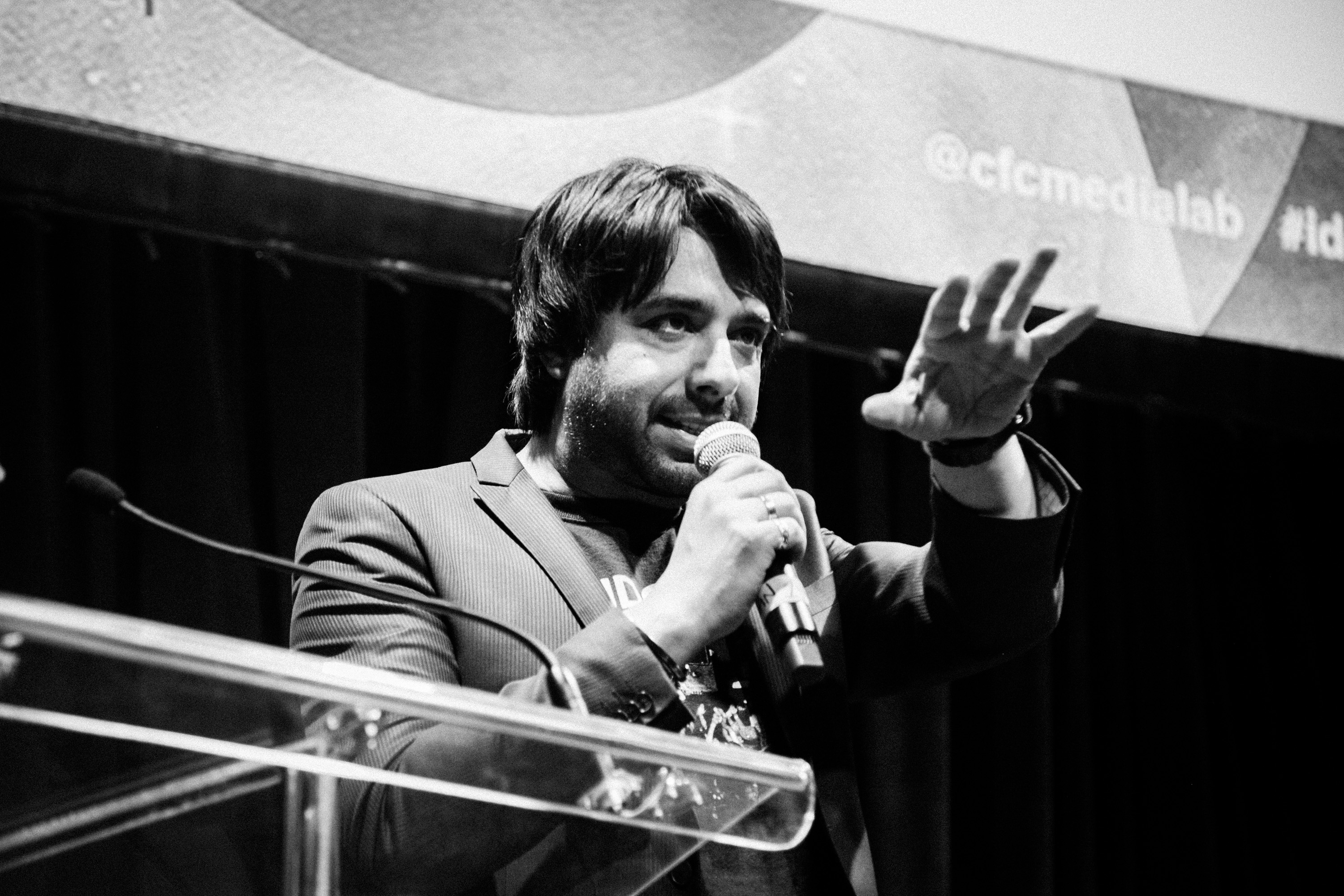 Jian Ghomeshi On May 8, 2014, the third cohort of participants in CFC Media Lab's ideaBOOST presented their businesses to an audience at The Roundhouse. The evening was hosted by Jian Ghomeshi. Photos by Sarjoun Faour. To learn more about ideaBOOST, visit